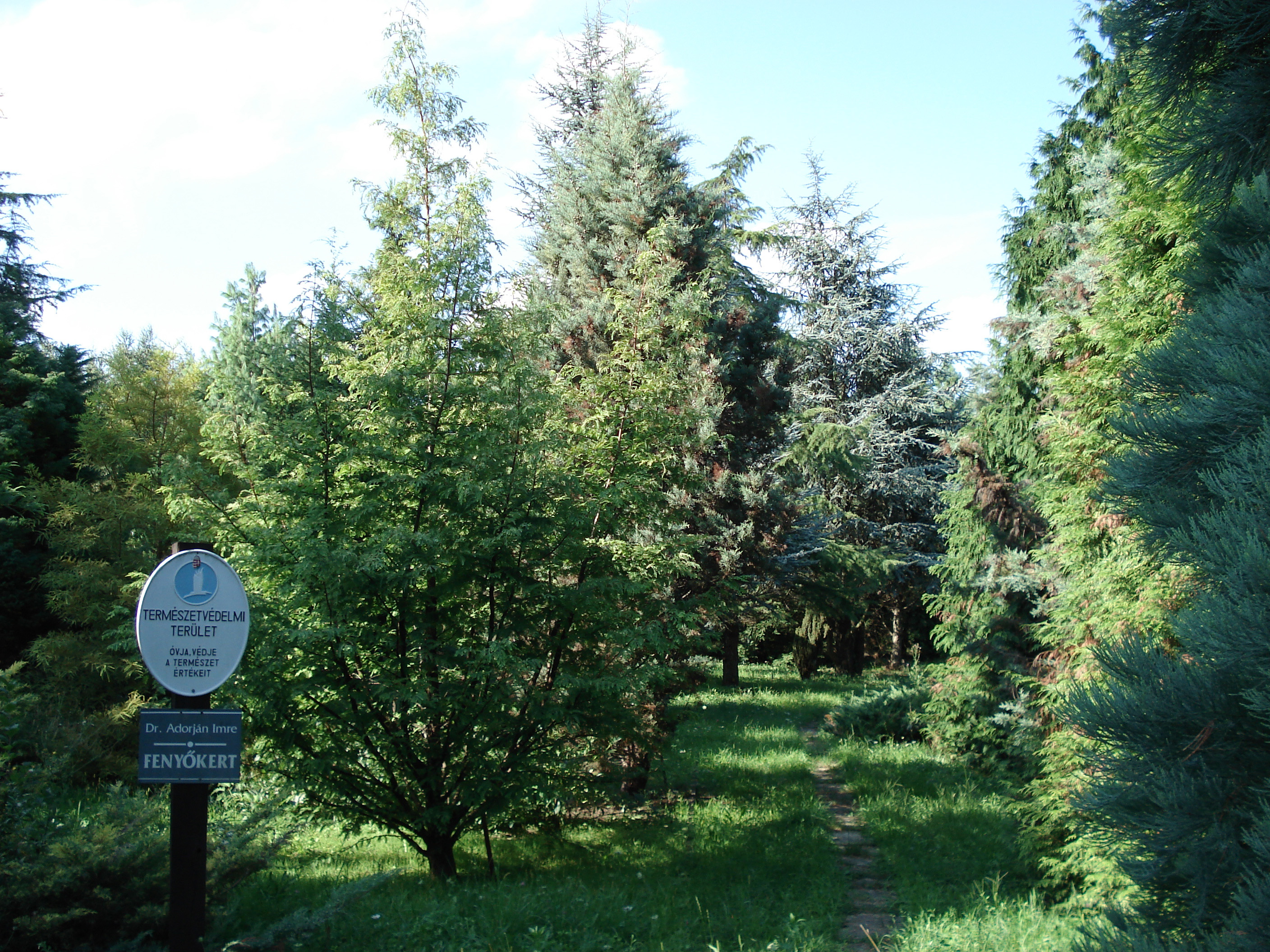 Botanical Garden Avas, Pine garden. Miskolc, Hungary